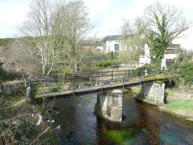 Disused footbridge Over the Derreen River north of Hacketstown.